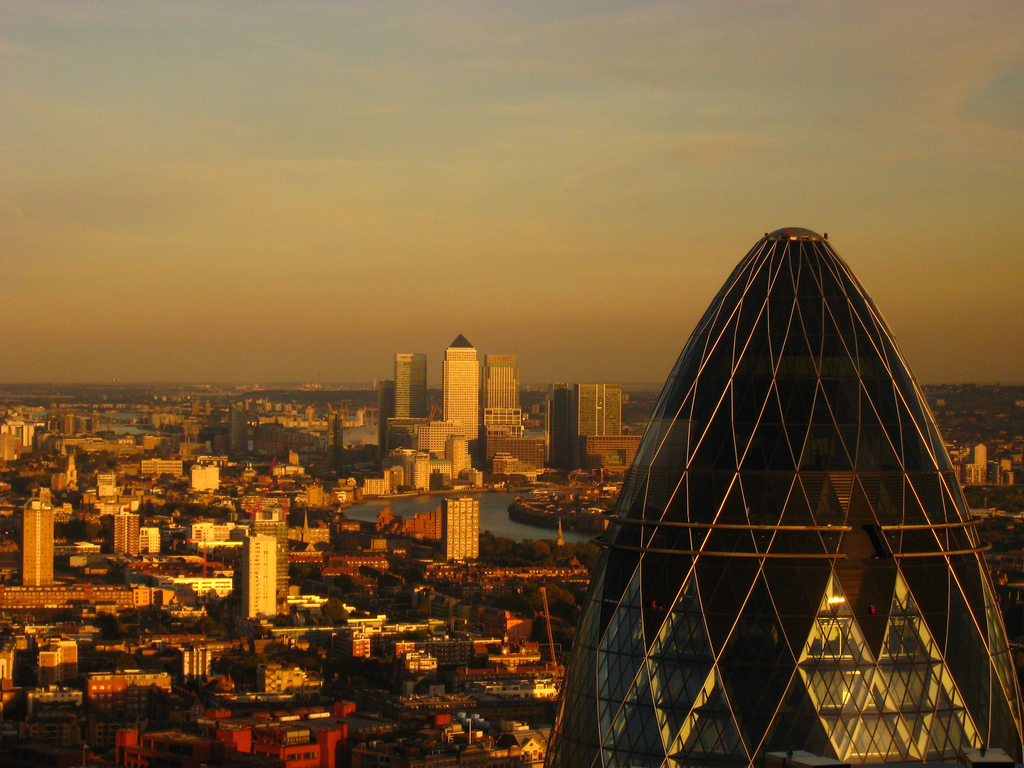 London - The Gherkin & Canary Wharf Taken from Tower 42 (formerly NatWest Tower)